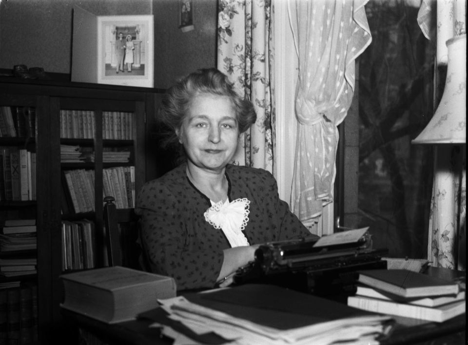 For documentary purposes the original description provided by BAnQ has been retained. Additional descriptive text may be added by Wikimedians with the wiki description = parameter, but please do not modify the other fields.